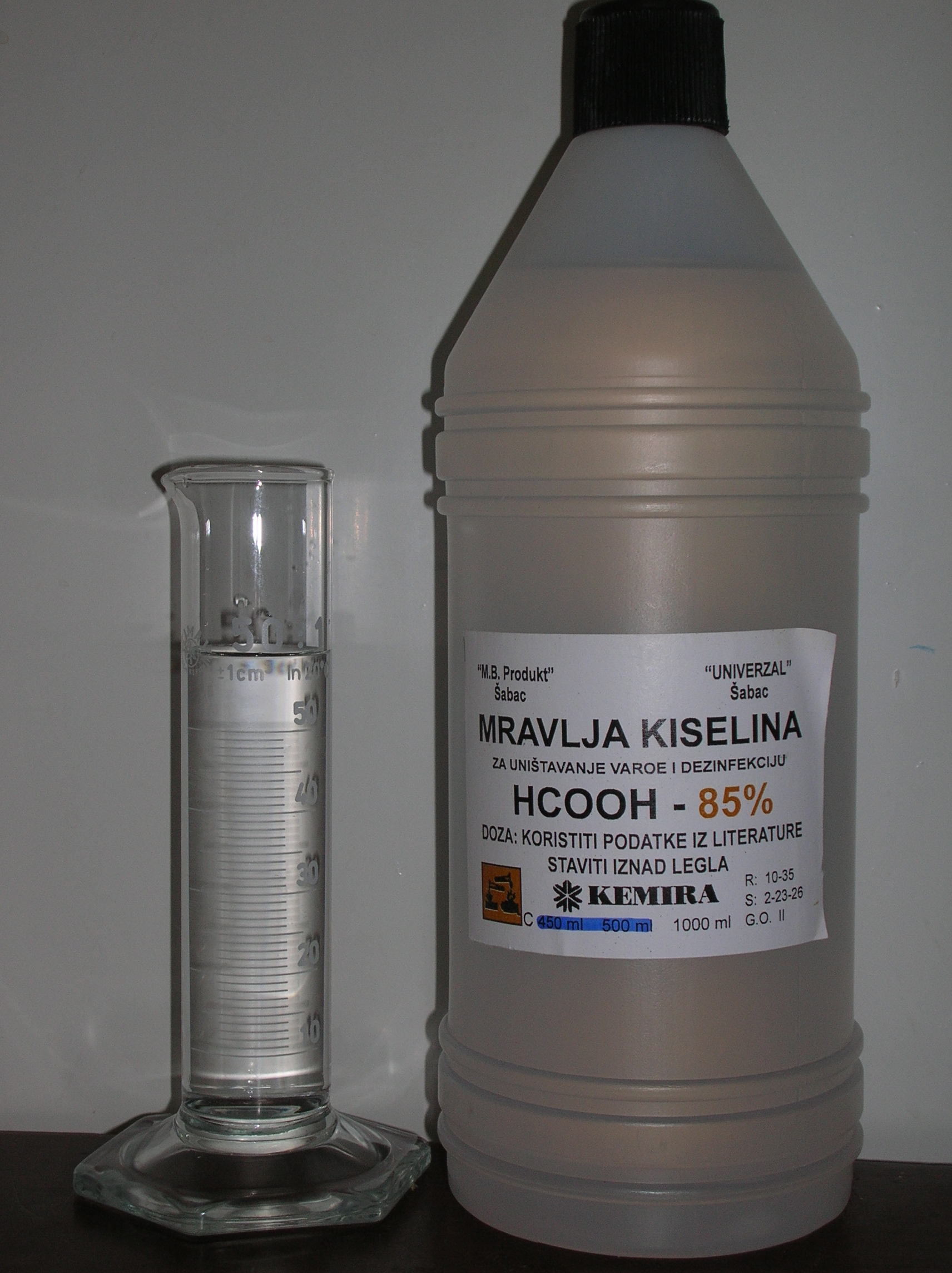 A bottle of industrial product of formic acid and a graduated cylinder showing the appearance of formic acid as a liquid. Formic acid is a carboxylic acid with the formula HCOOH. Label on the bottle says (translated from Serbian): "Formic acid For destruction of Varoa and disinfection HCOOH - 85% Dose: use data from literature, put above the hive"